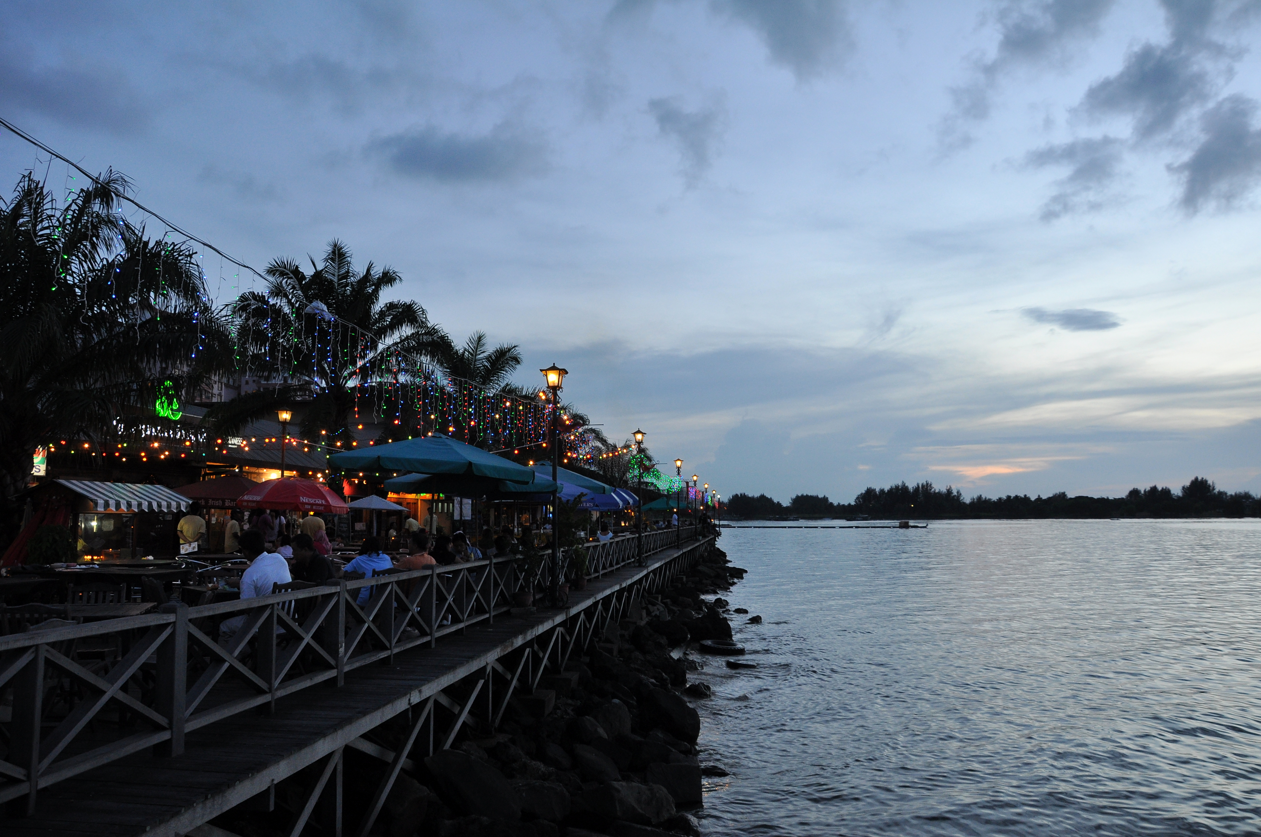 Photo of the boardwalk in Kota Kinabalu, Sabah, Malaysia.